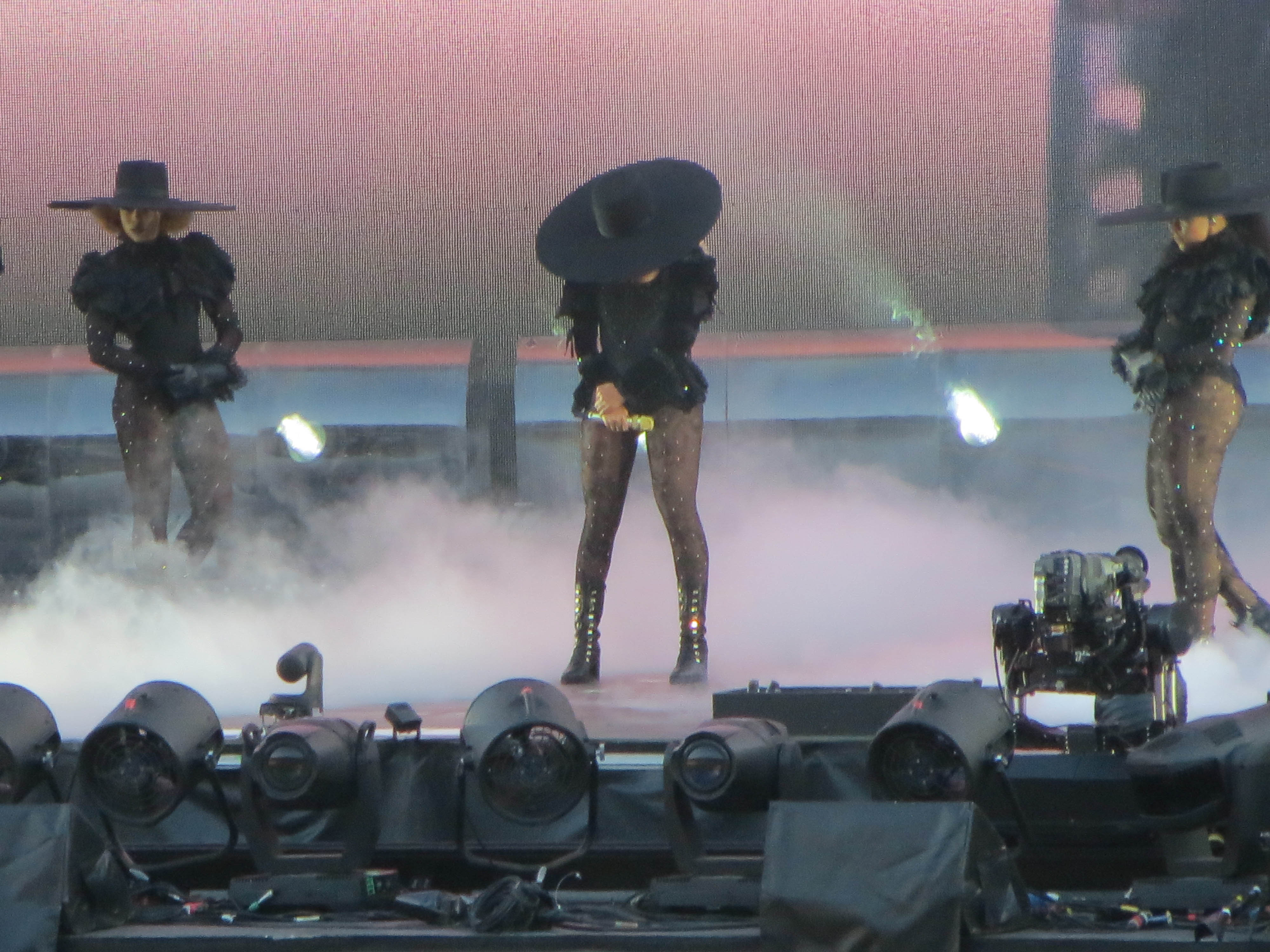 Beyoncé performing during The Formation World Tour in Brussels, Belgium, on July 31, 2016.